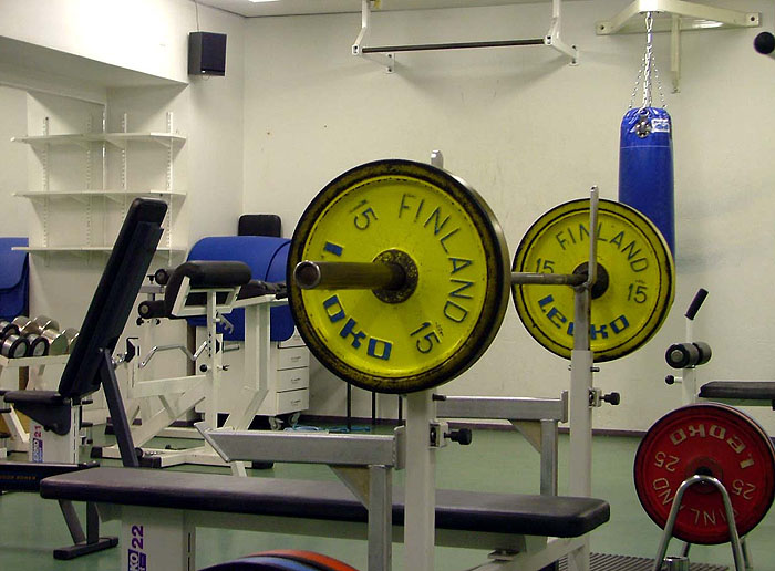 A small, traditional gym, with a bench press bench at the front. Helsinki, Finland, May 2004.